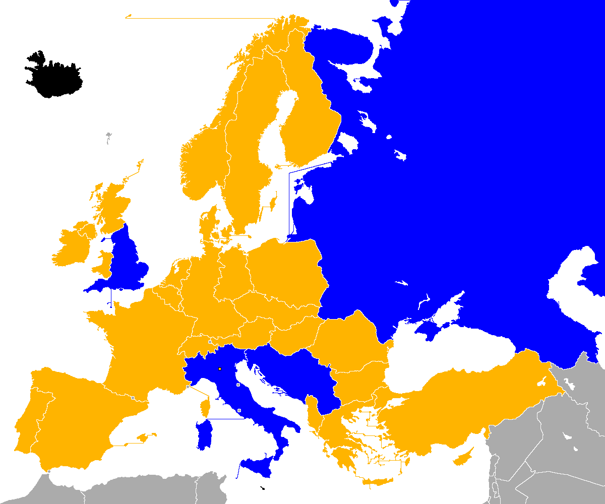 Euro 1968 qualifiers